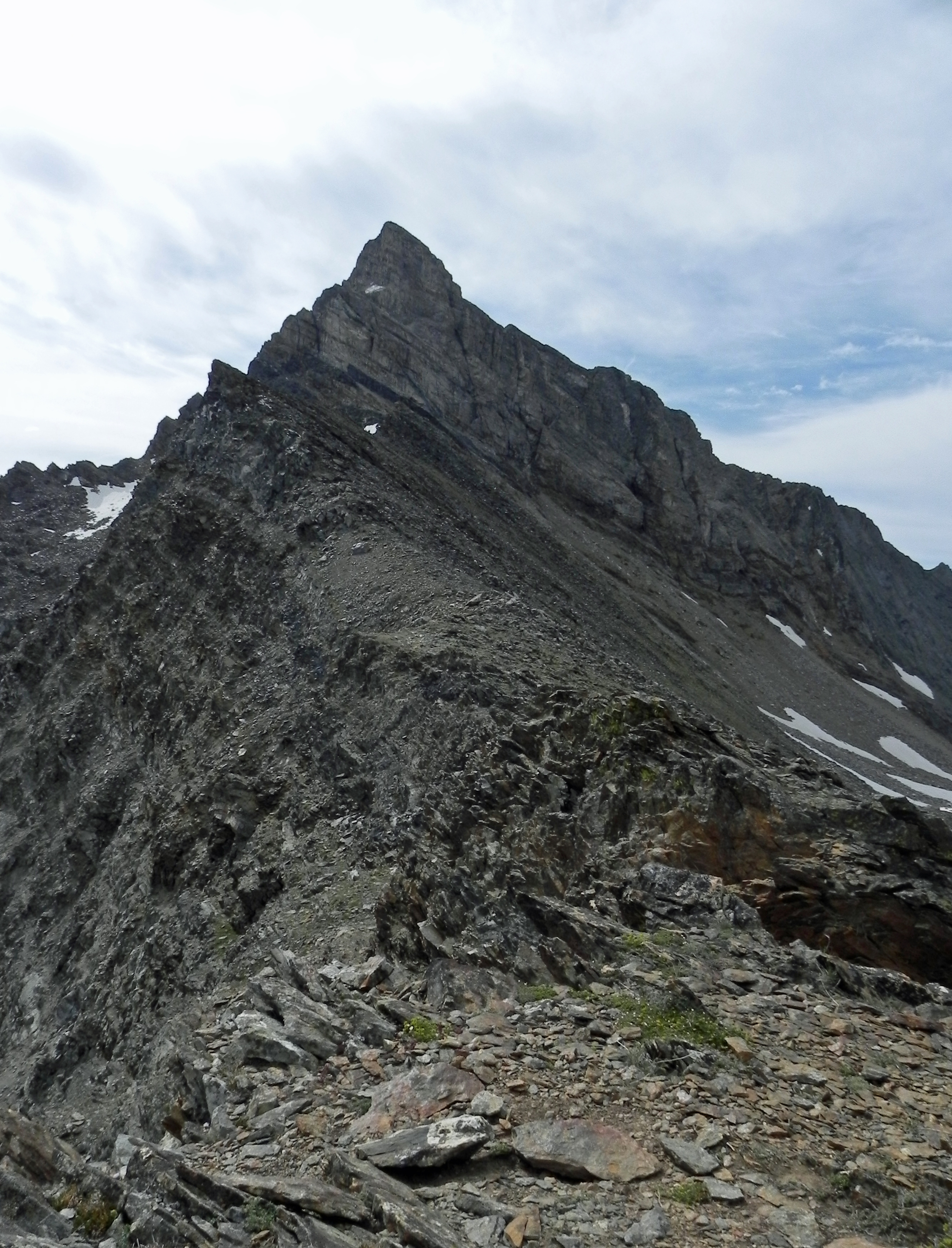 Old Hyndman Peak in the Pioneer Mountains in Idaho. Photo taken from the north on the Hyndman Peak - Old Hyndman Peak Ridge.